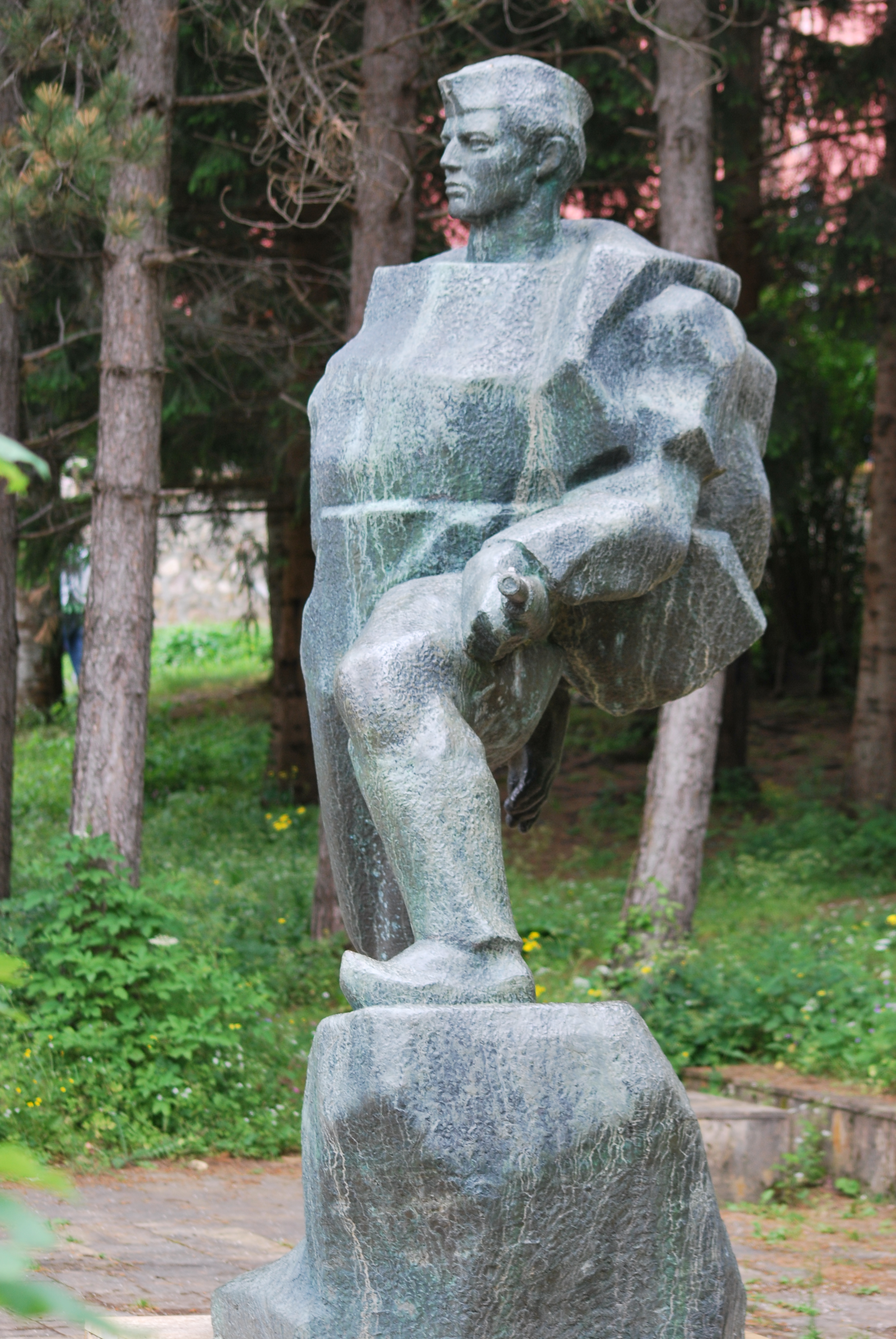 ITrnica, Macedonia